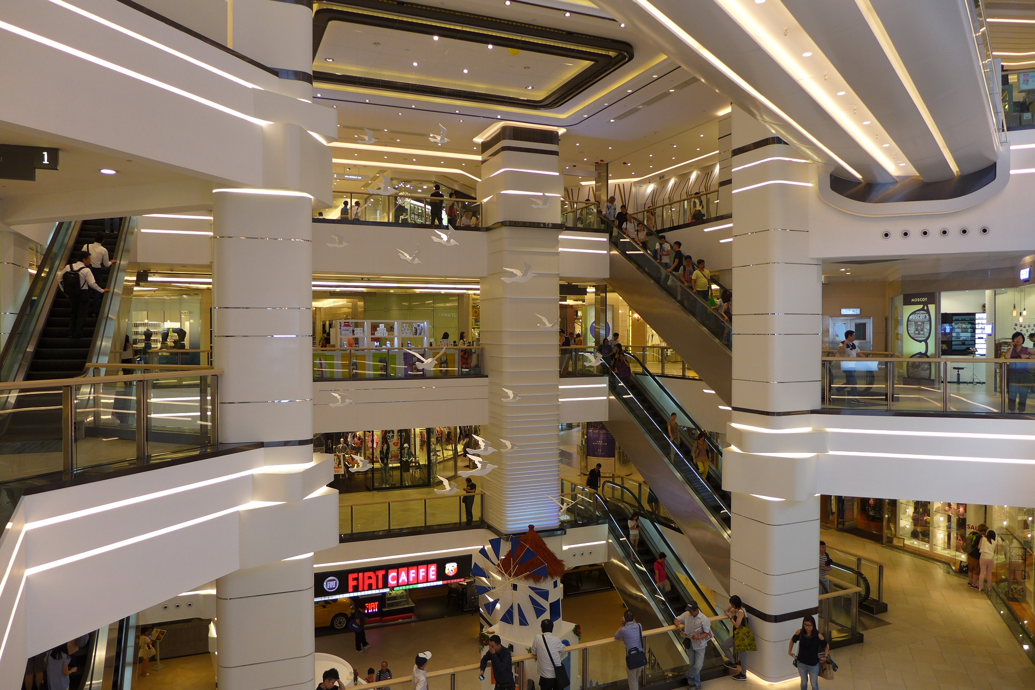 Miramar Shopping Centre Atrium